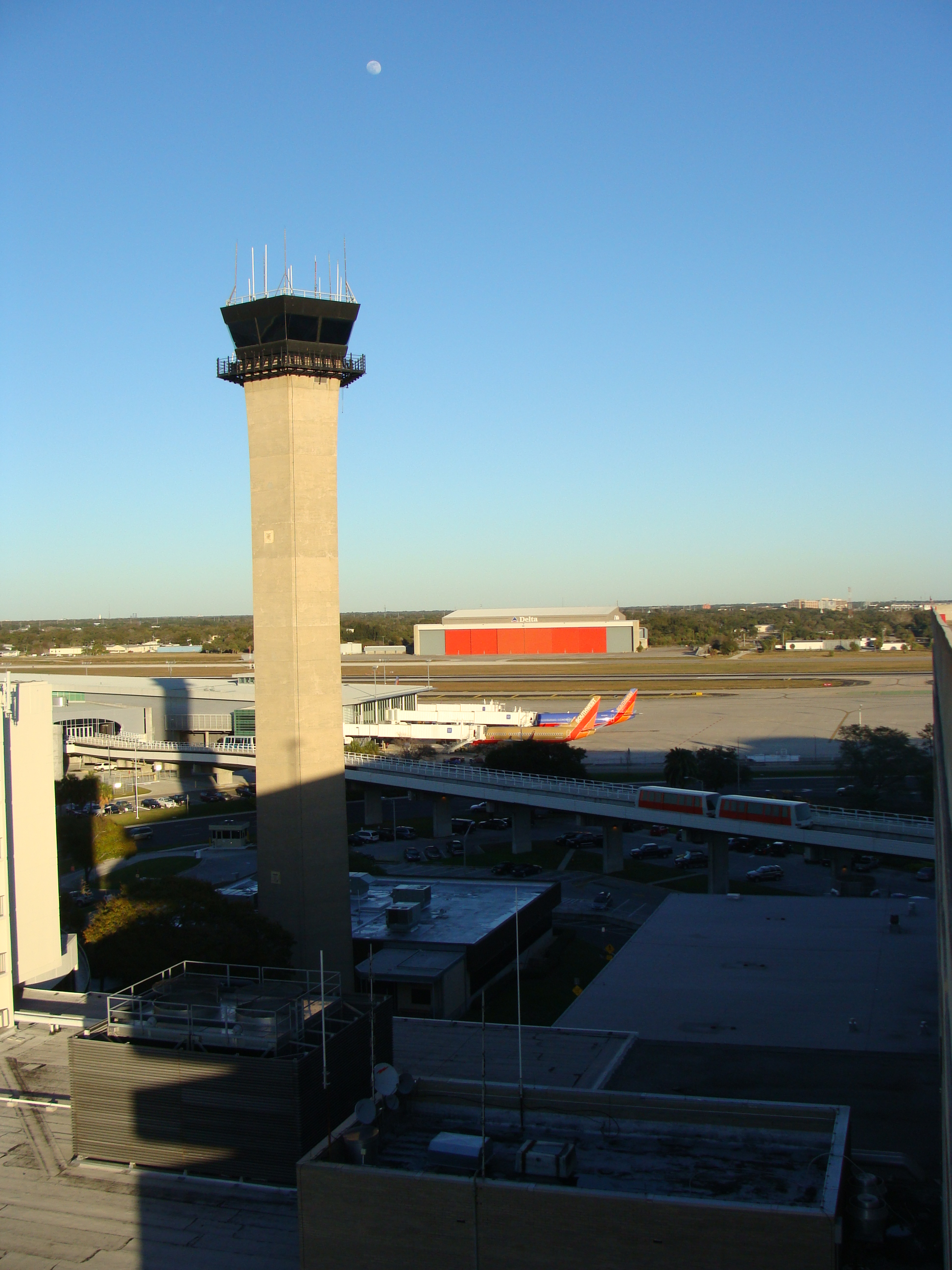 Photograph of the control tower at the Tampa International Airport in Tampa, FL as seen from the top level of the parking garage.